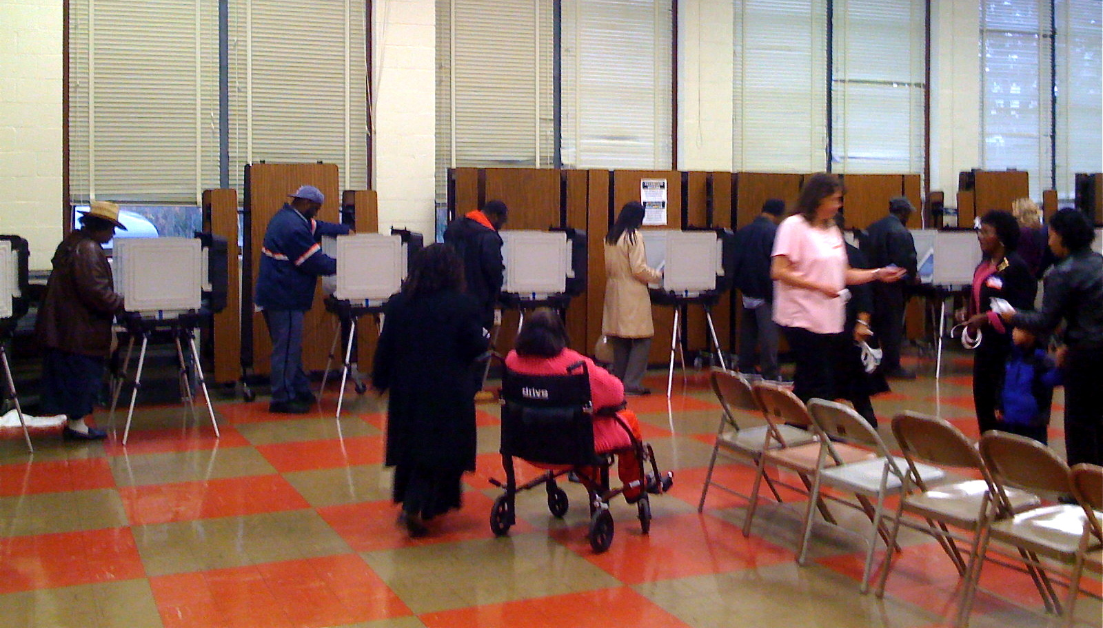 Pictures from my experience of voting in the 2008 election.